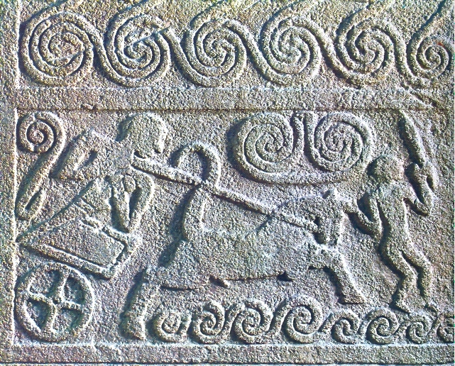 A funeral stele found on Grave Circle A, Mycenae, 16th century BC.